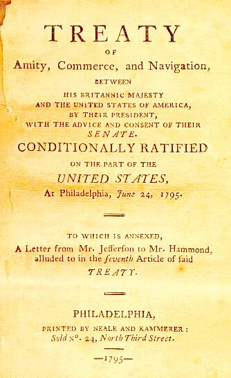 1795 pamphlet containing text of Jay Treaty. Published Philadelphia 1795 (before 1923--copyright expired).